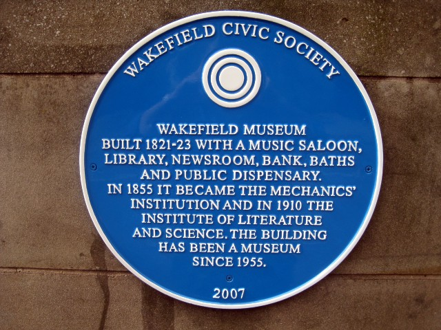 Museum plaque. This plaque is affixed to the front wall of Wakefield museum.654130